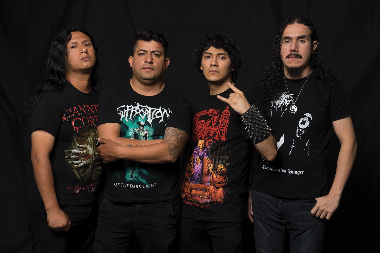 Group photo of the band Infection.